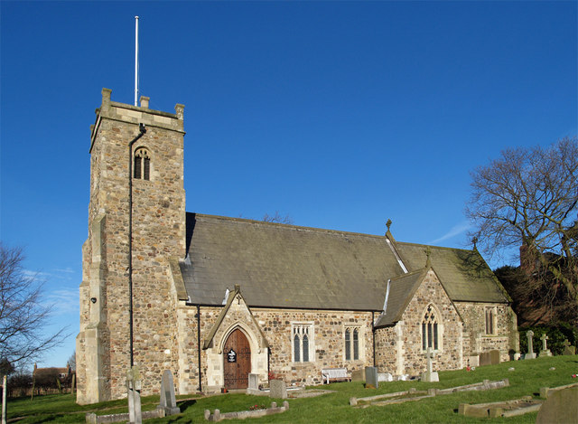 Church of St. Michael - Catwick, East Riding of Yorkshire, England.Pevsner says "Cobble with stone dressings. The W tower is Perp. The rest of the church was rebuilt in 1862-3, to the designs of Mallinson & Healey, using old materials.."